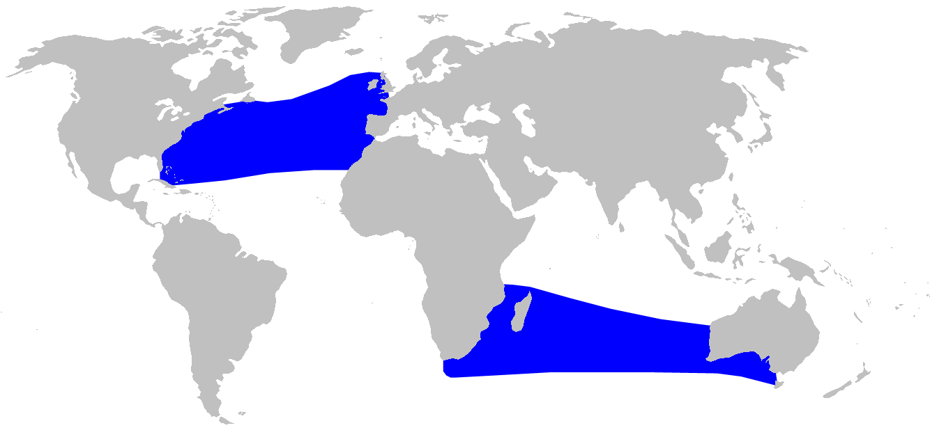 Distribution of Mesoplodon mirus